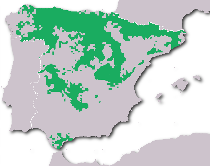 Distribution map of roe deer (Capreolus capreolus) in Spain. Source: Biodiversia.es